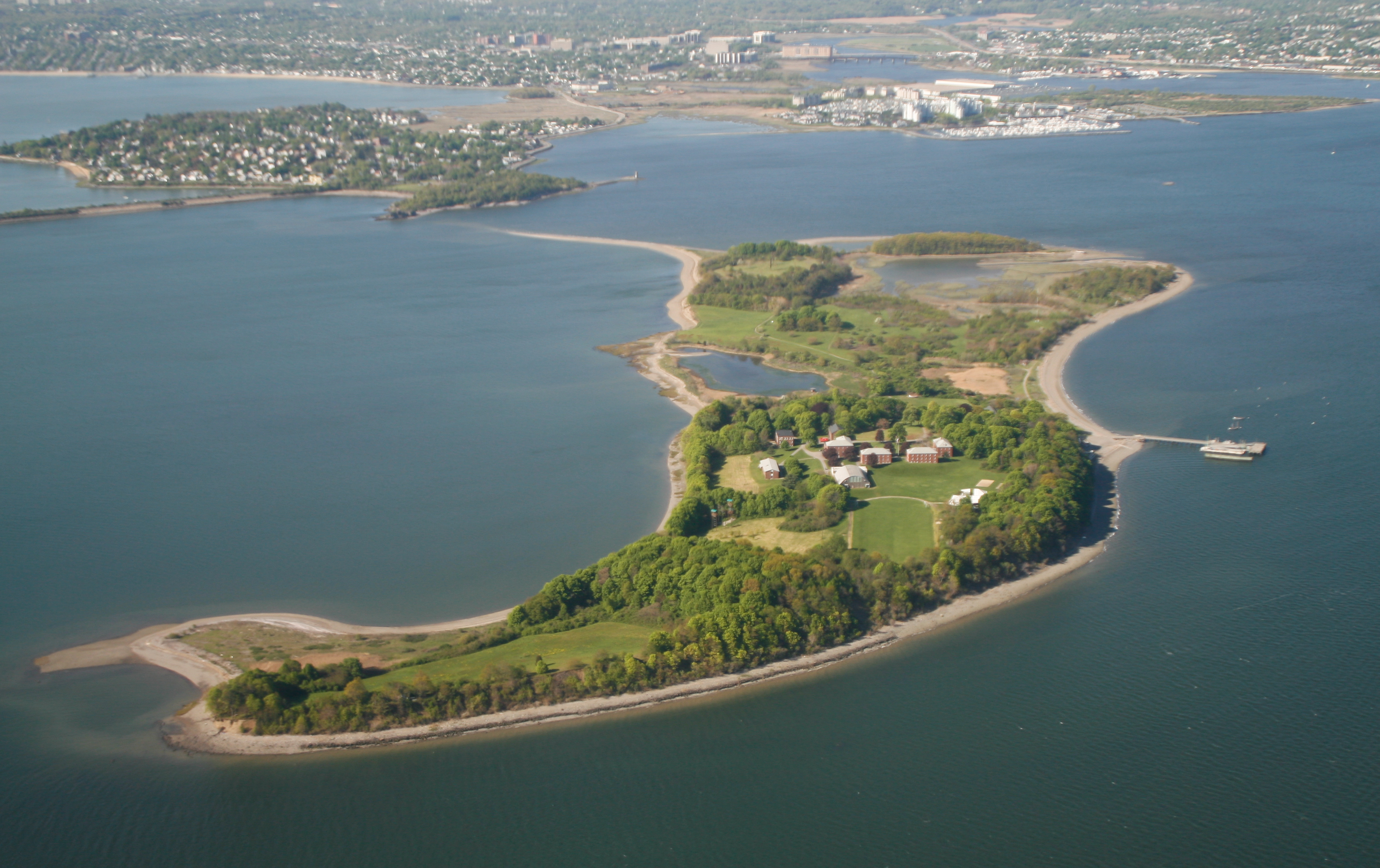 Thompson island located in the Boston harbour, Massachusetts.